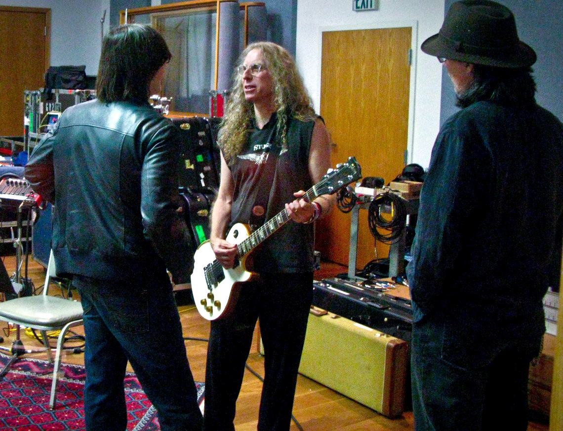 Left to Right, Jackson Browne, Waddy Wachtel, John Cowsill